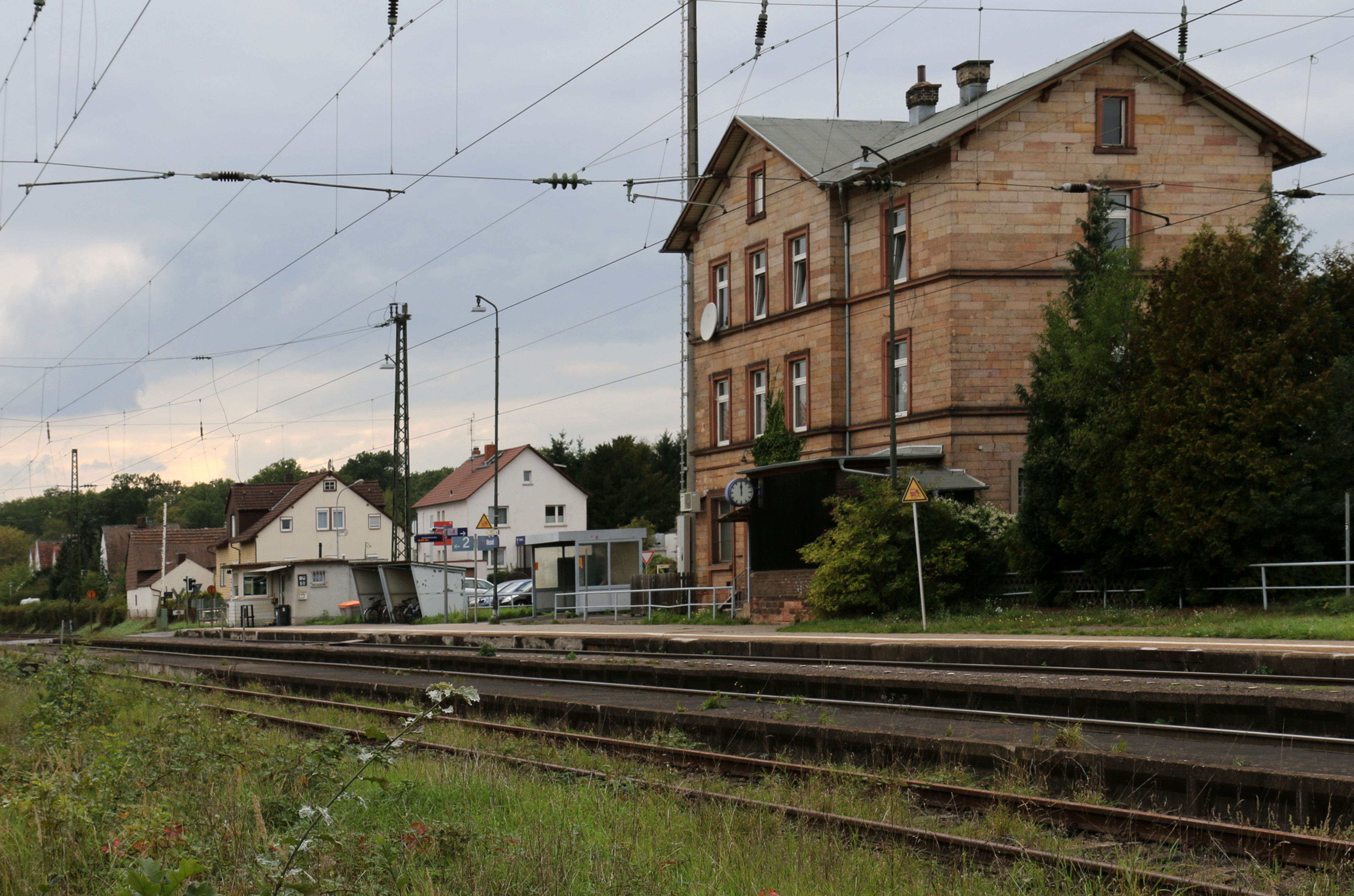 Building at Messel Train Station (Hesse, Germany)